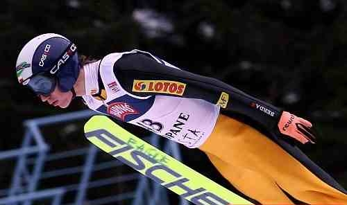 Kamil Stoch during FIS Ski Jumping World Cup in Zakopane 2007